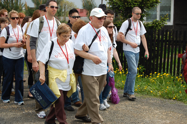 Pinchas Gutter leads a group of young people at the annual March of Remembrance and Hope